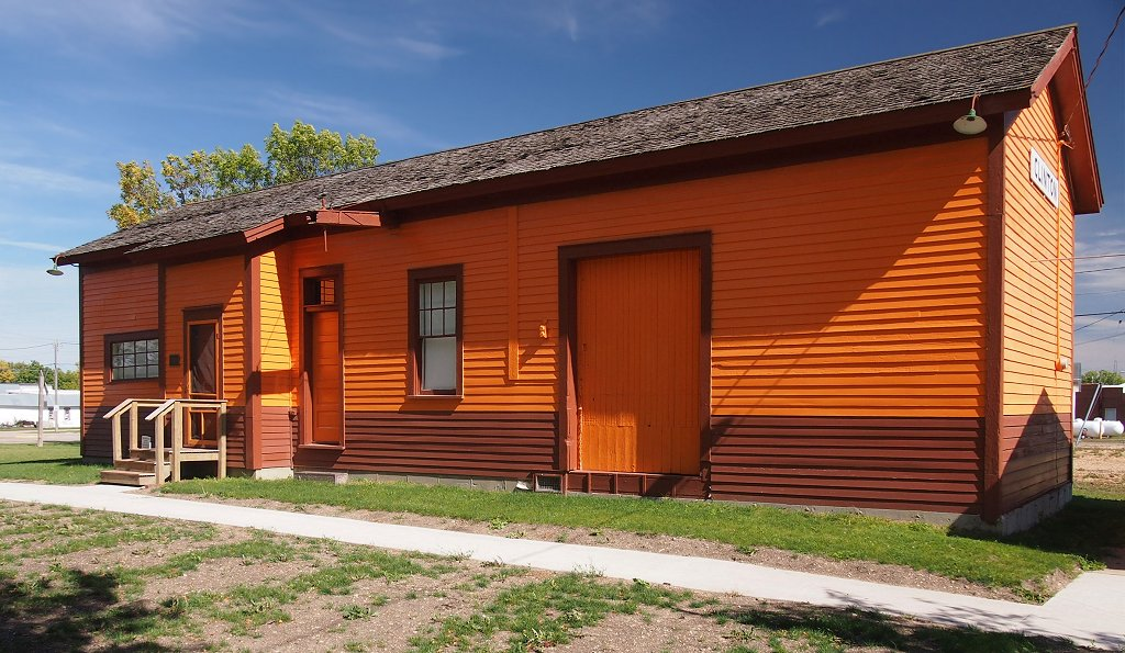 Chicago, Milwaukee, St. Paul and Pacific Depot, Main and Center Sts., Clinton, Minnesota, USA. Viewed from the southwest.